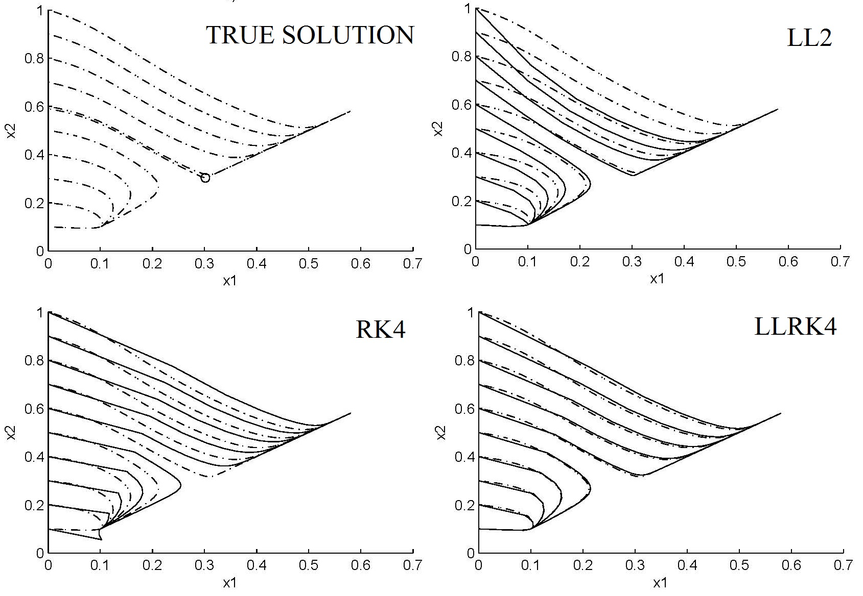 img de methods ODE